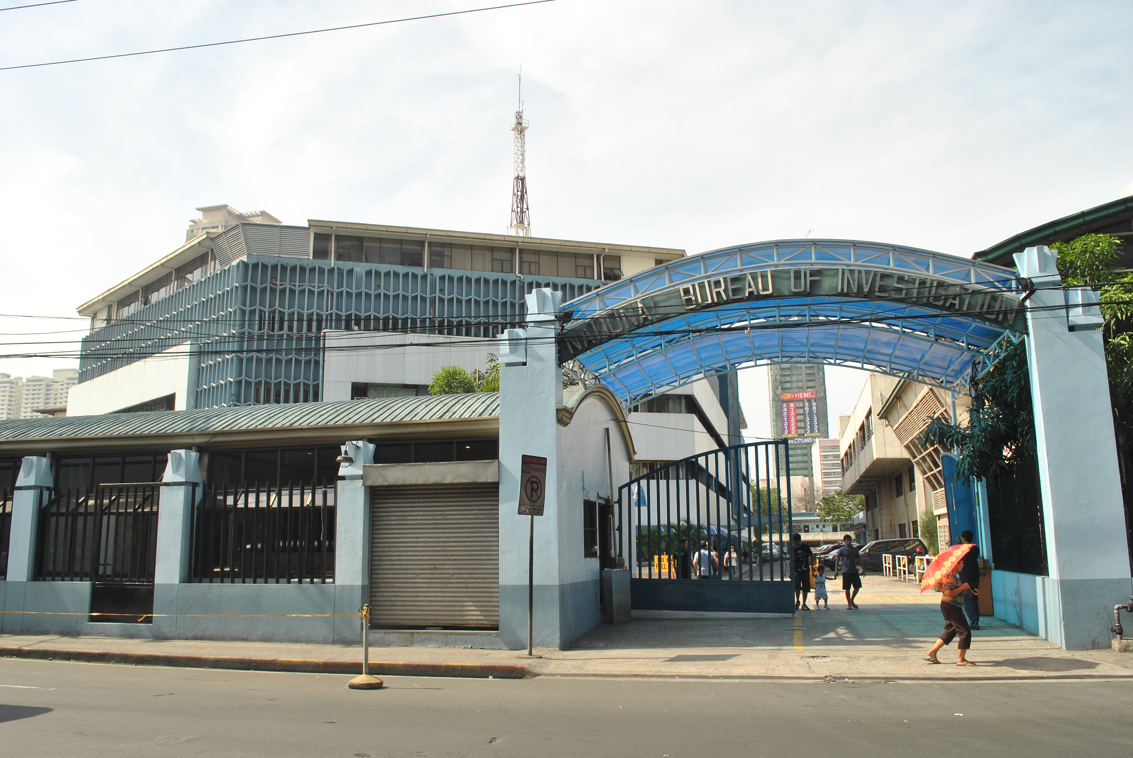 National Bureau of Investigation in Manila, Philippines